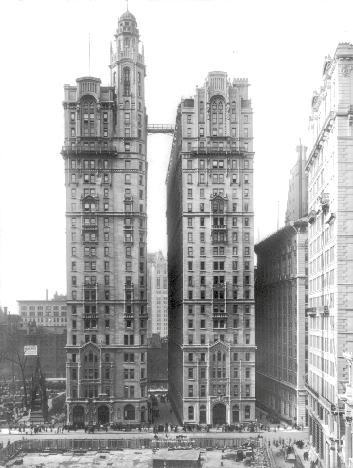 Looking west over the site of the late Equitable Life Assurance Building of 1870 and the future (and extant) Equitable Building of 1915 at the Trinity Building (left, 1905) and the United States Realty Building (1907), showing the north-side enlargement of the former (1907). This is a retouched picture, which means that it has been digitally altered from its original version. Modifications: cropped, lighting altered, and blemishes removed. The original can be viewed here: Trinity - U.S. Realty Bldgs., New York City LCCN2007677039.jpg: . Modifications made by Vzeebjtf.